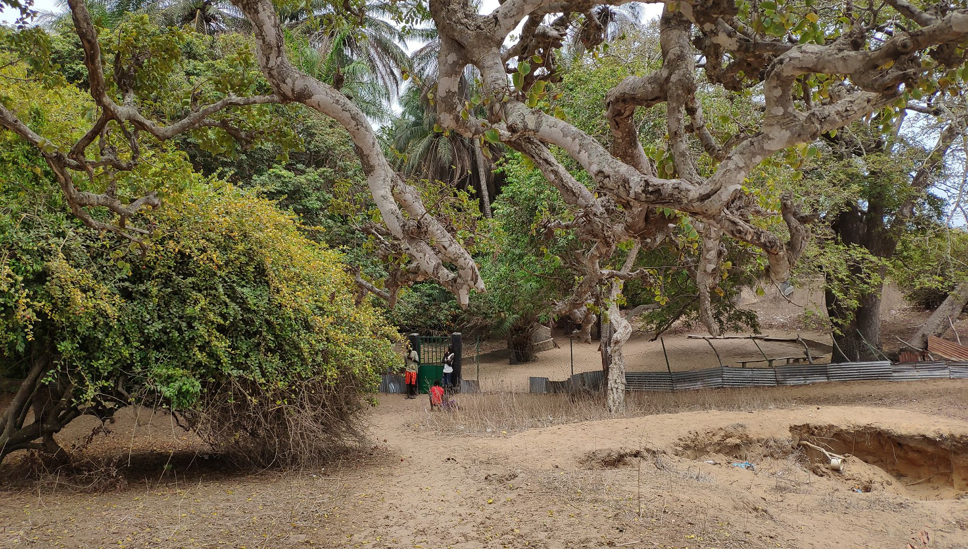 Heiliges Krokodilbecken von Folonko, Gambia British